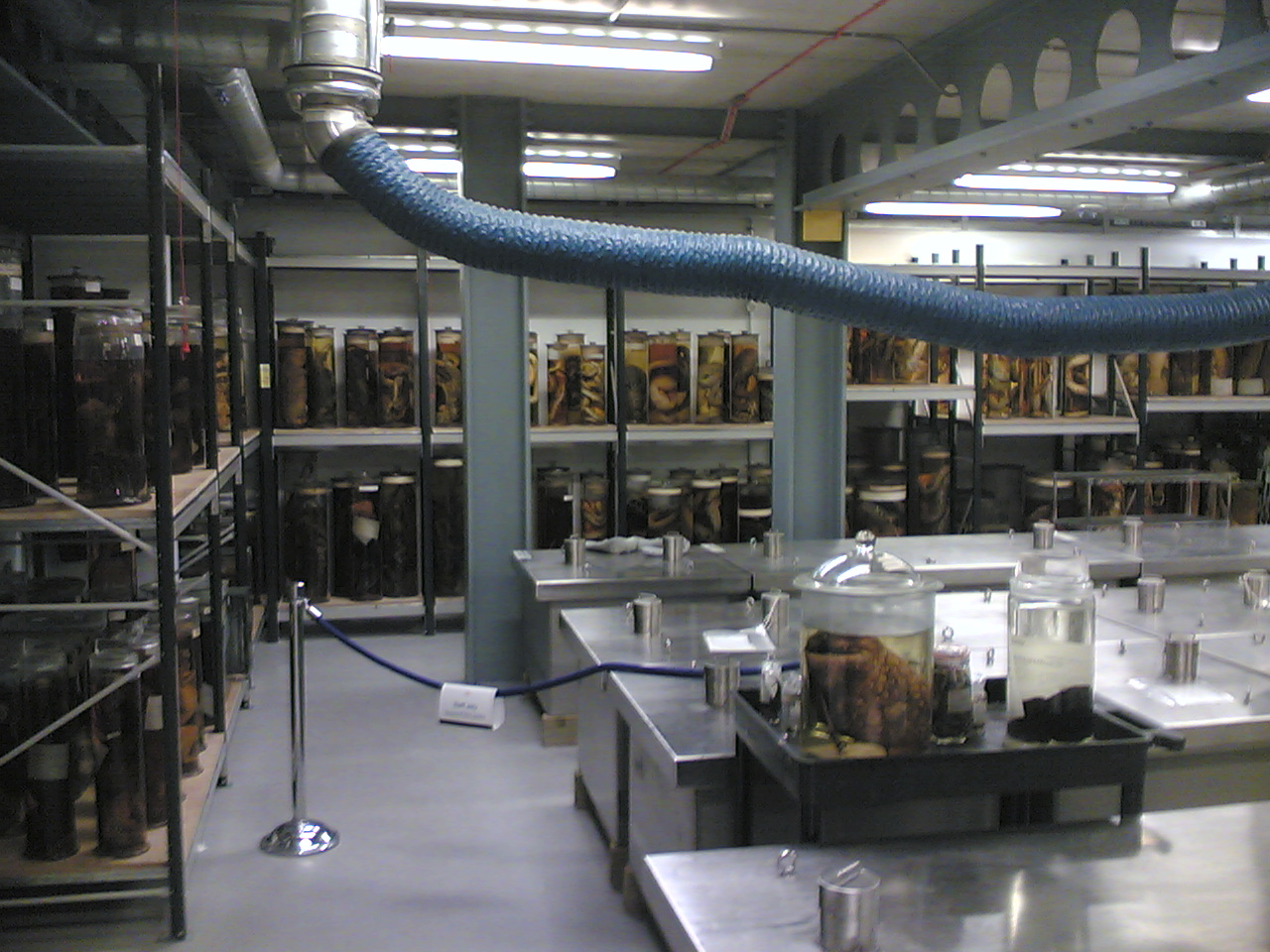 The Tank Room, part of the Natural History Museum's Darwin Centre, holds larger fish from the collection, and preparation facilities for them. The room is also home to a giant squid, held in a 9 meter custom-built tank.